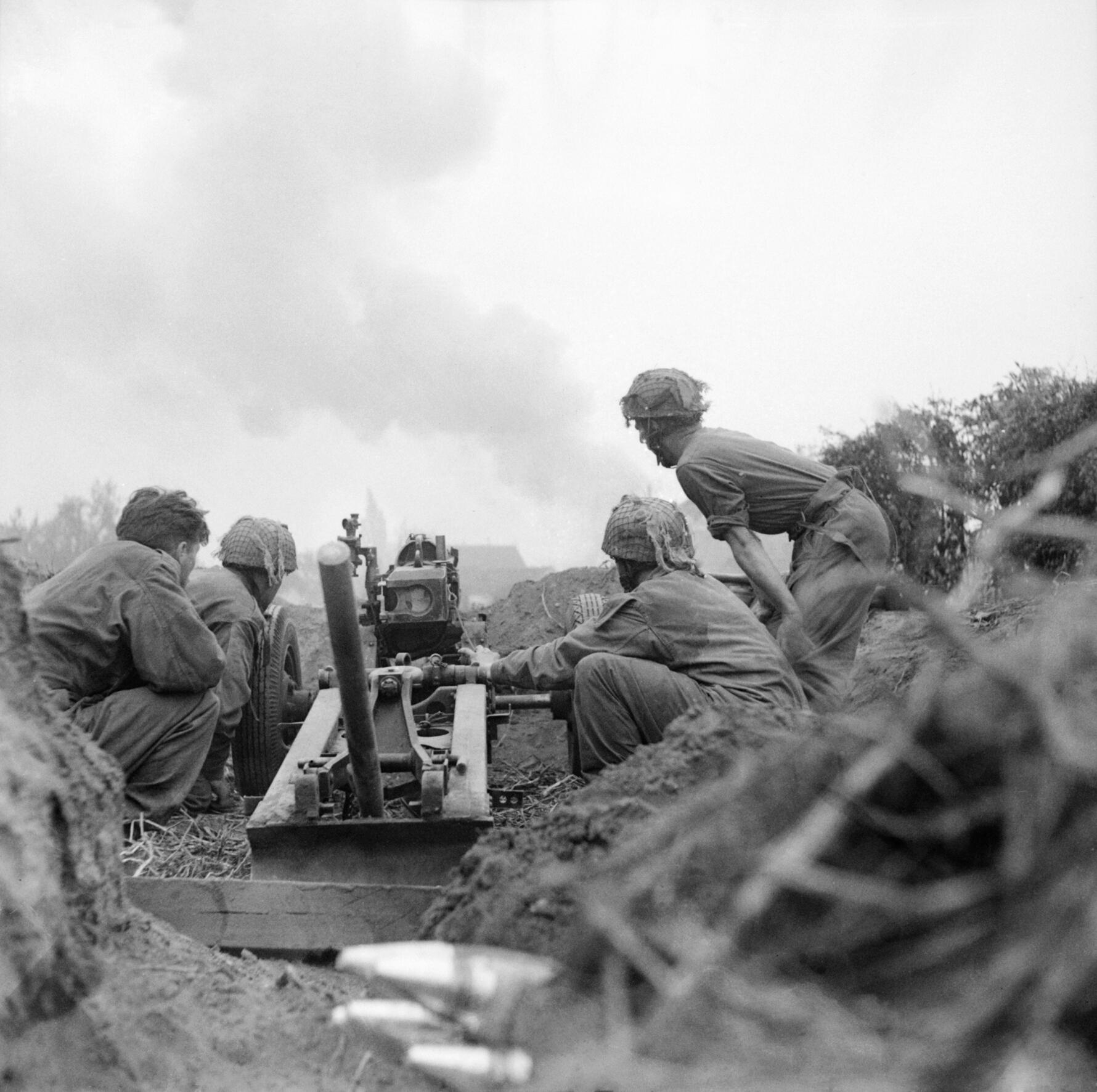 Operation 'market Garden' (the Battle For Arnhem)- 17 - 25 September 1944 75mm howitzer of 'D' Troop, 2nd Battery, 1st Airlanding Light Regiment, 1st Airborne Division in the Oosterbeek perimeter, 20 September 1944.